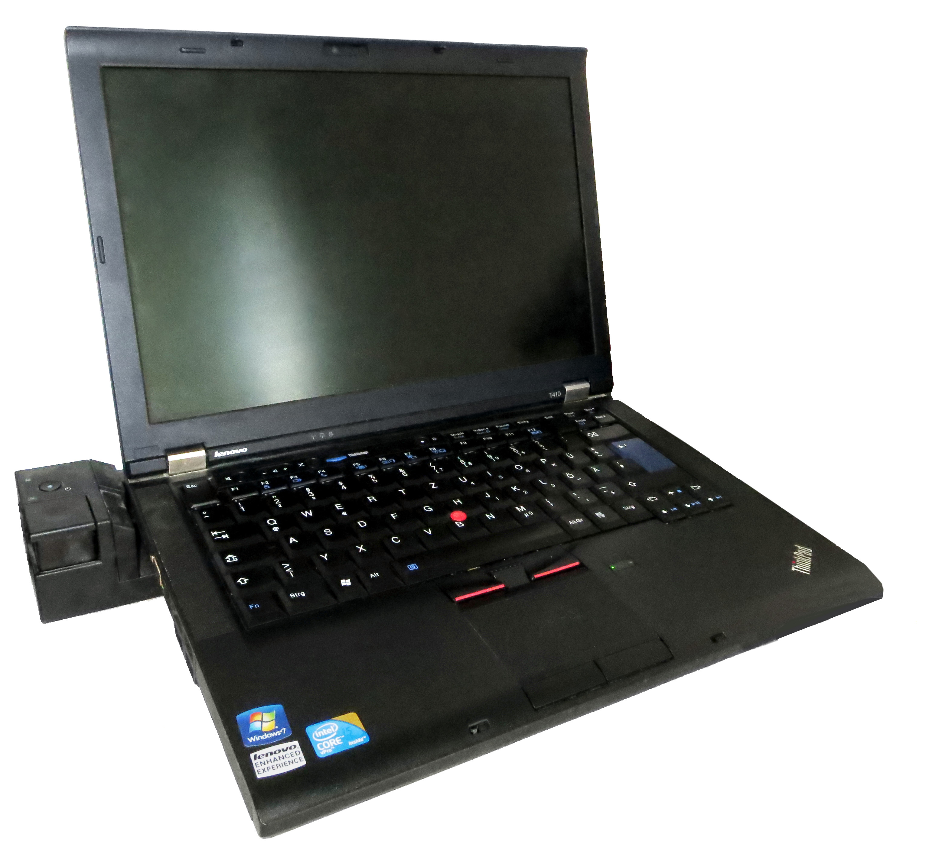 ThinkPad T410